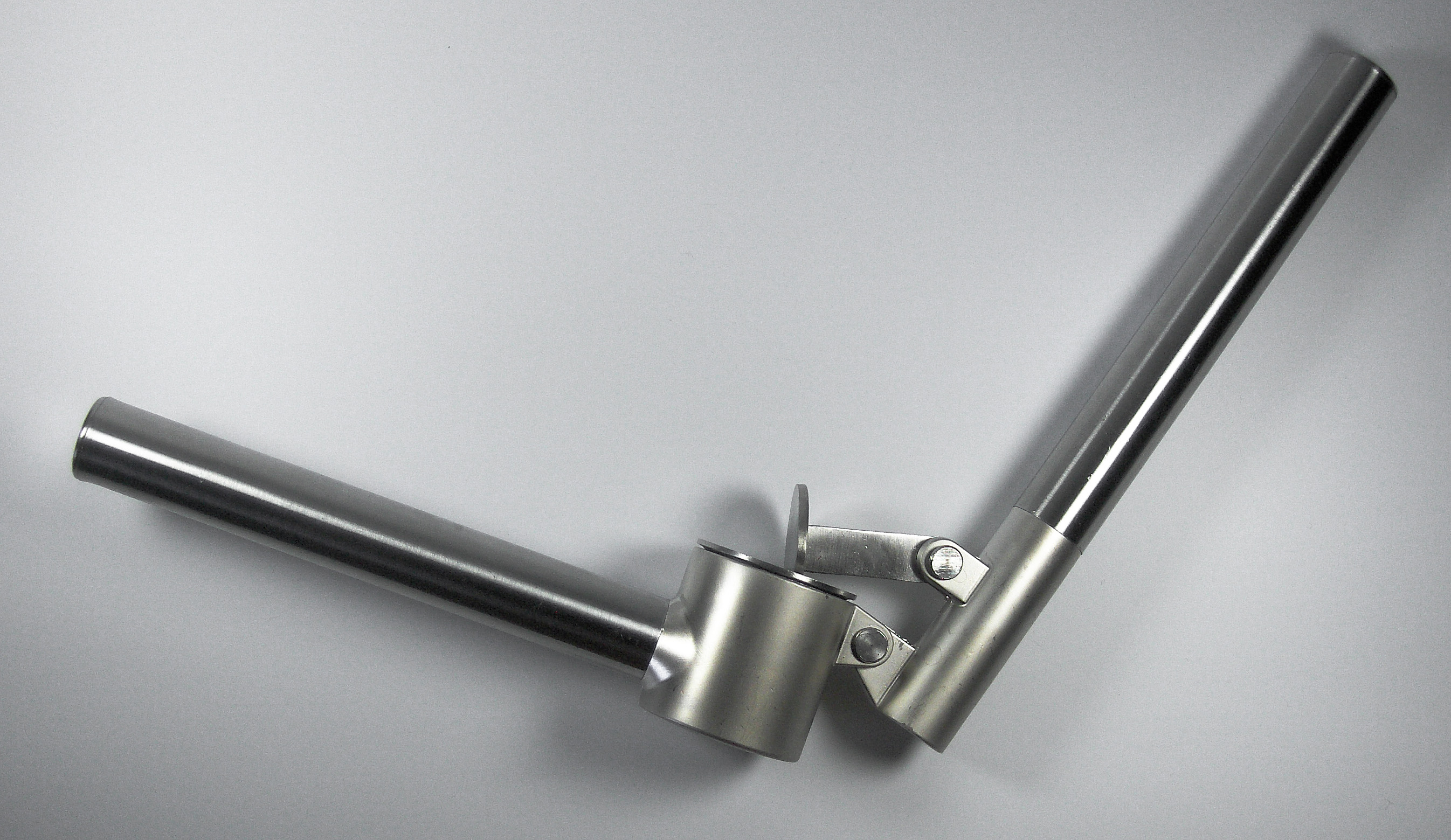 garlic press